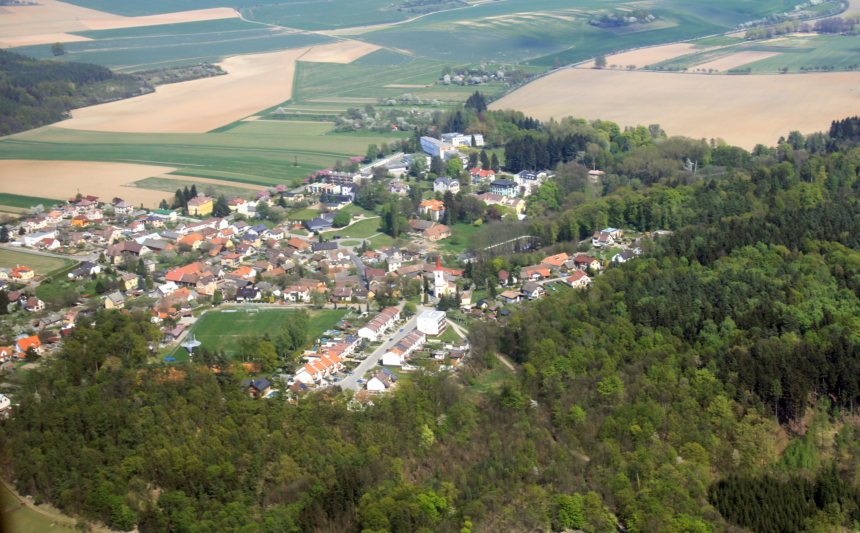 Village and small spa Velichovky from air, eastern Bohemia, Czech Republic